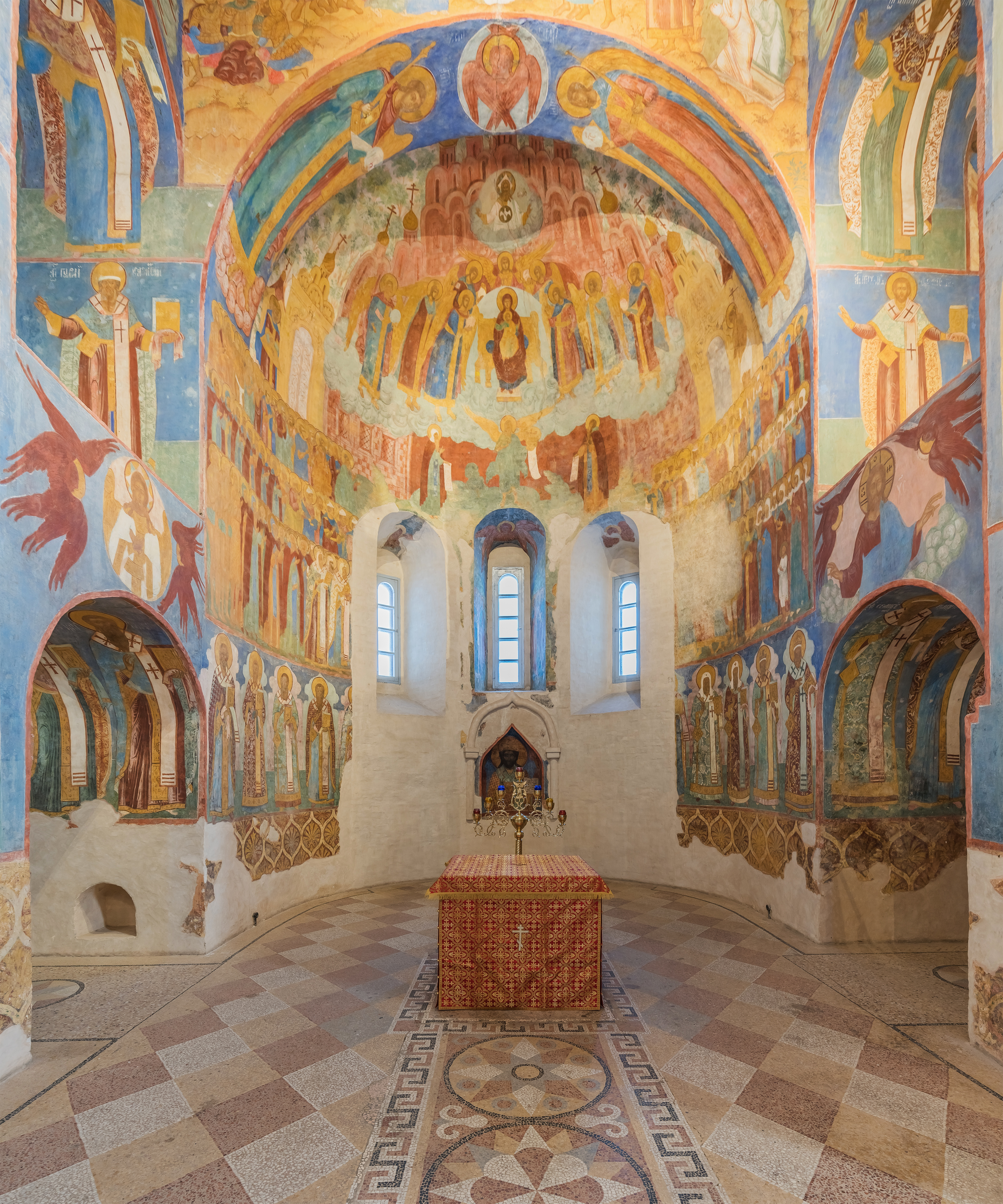 Transfiguration Cathedral in Spaso-Evfimiev Monastery in Suzdal, Russia